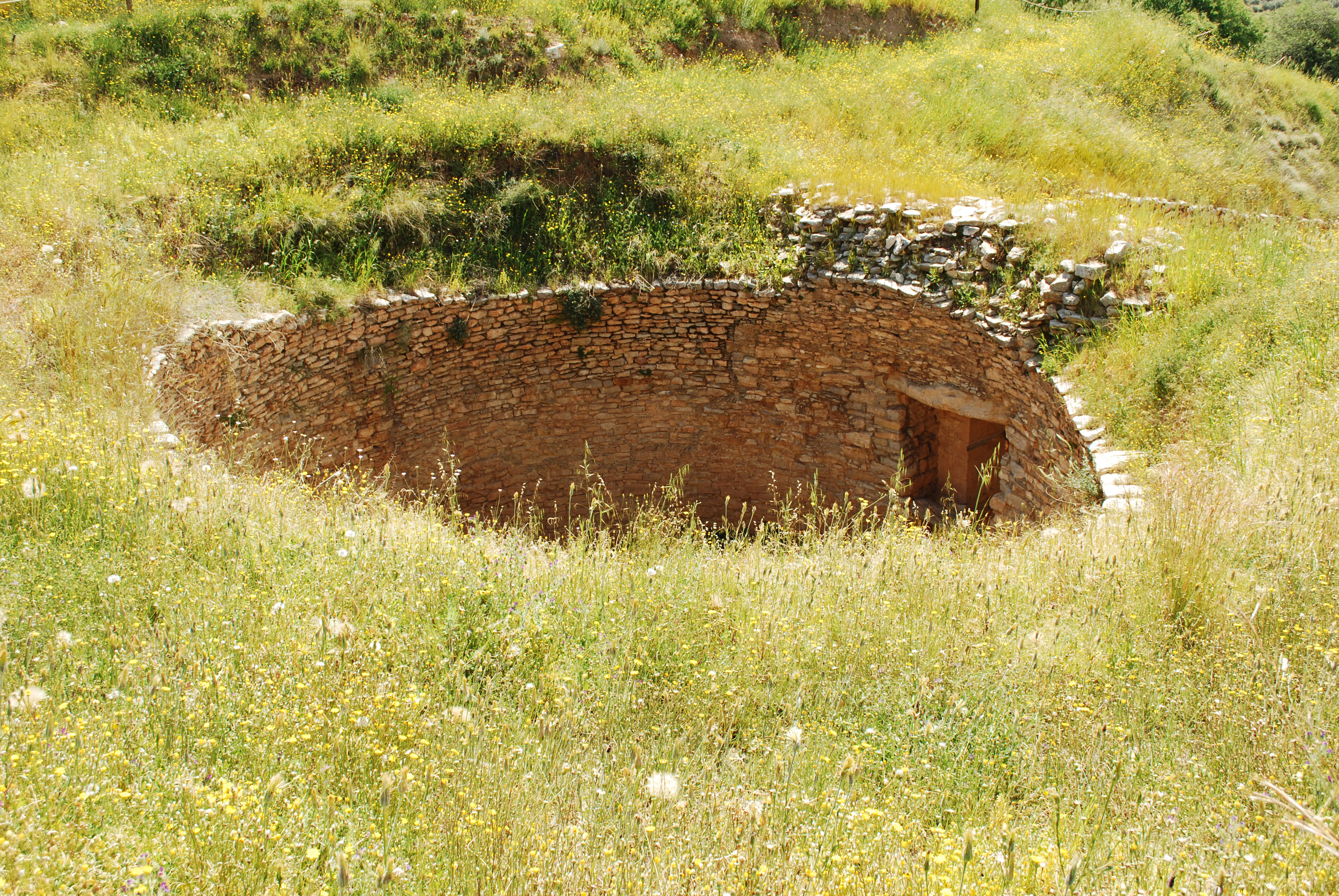 Mycenae : the Tomb of Aegisthus.